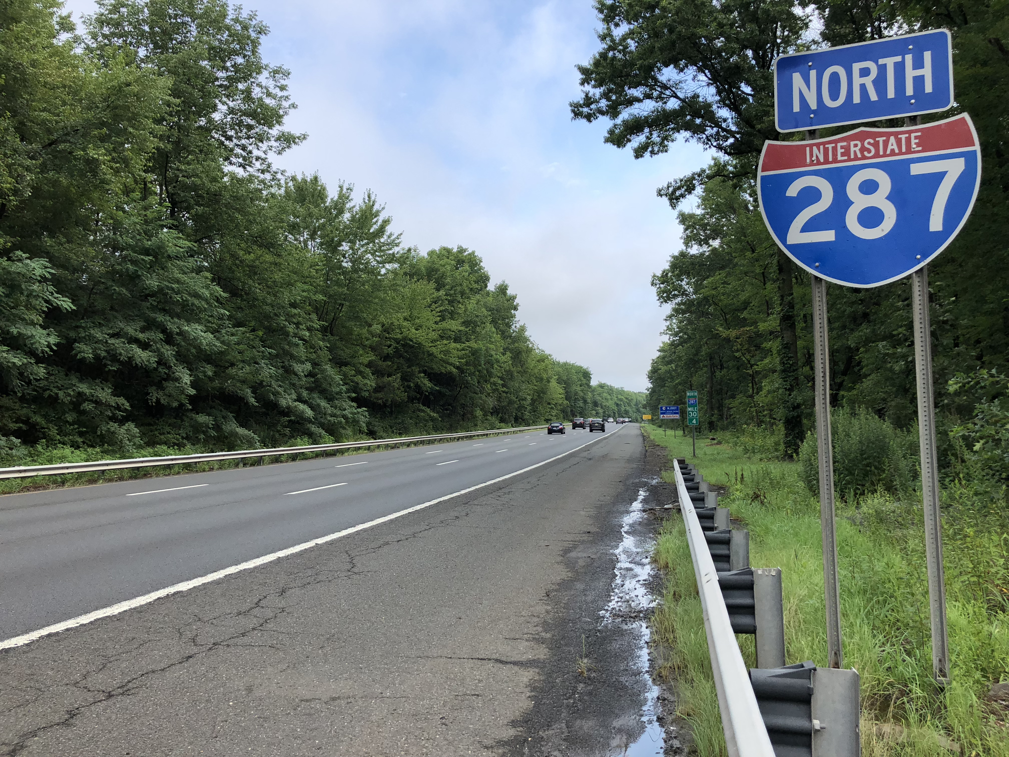 View north along Interstate 287 just north of Exit 30 in Harding Township, Morris County, New Jersey